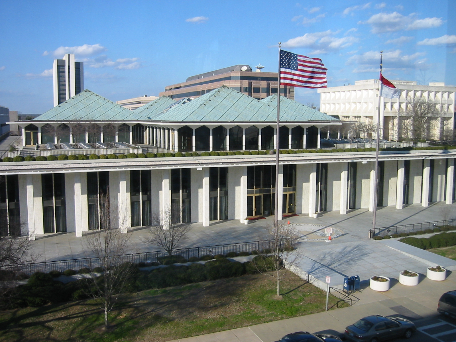 North Carolina State Legislative Office Building